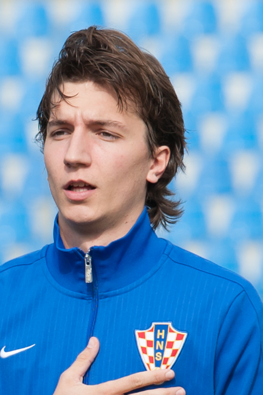 European Under-19 Championships 2015 Elite Round, Austria vs. Croatia, 28/03/2015 Wiener Neustadt, Lower Austria